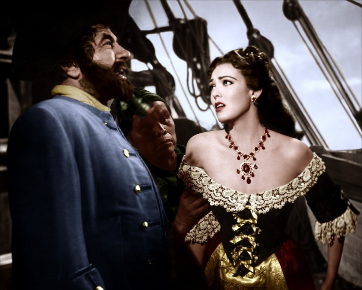 Robert Newton & Linda Darnell in Blackbeard the Pirate - cropped screenshot